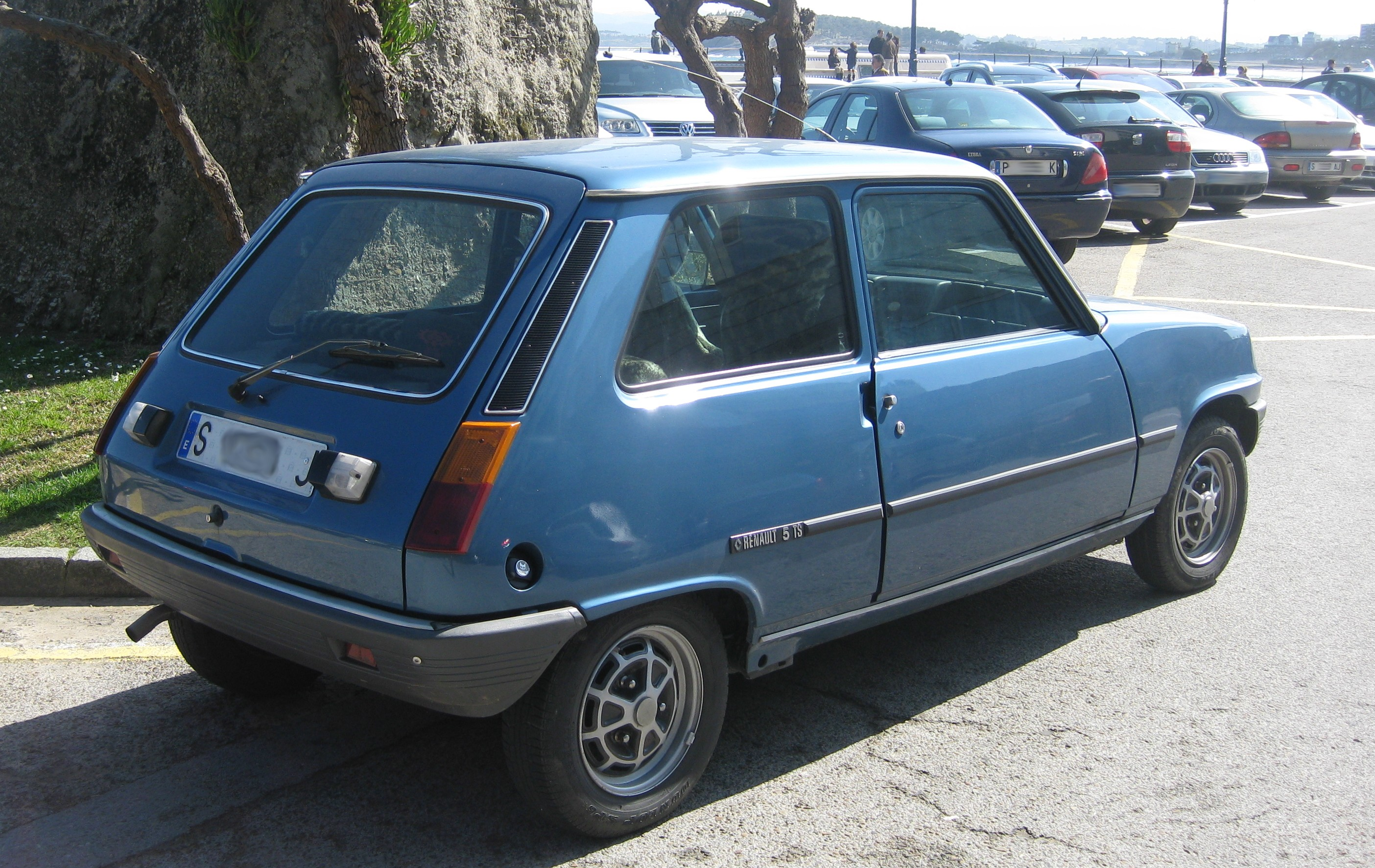 Immaculate example of this R5, carrying a 1982 plate from Santander, and spotted there as well.